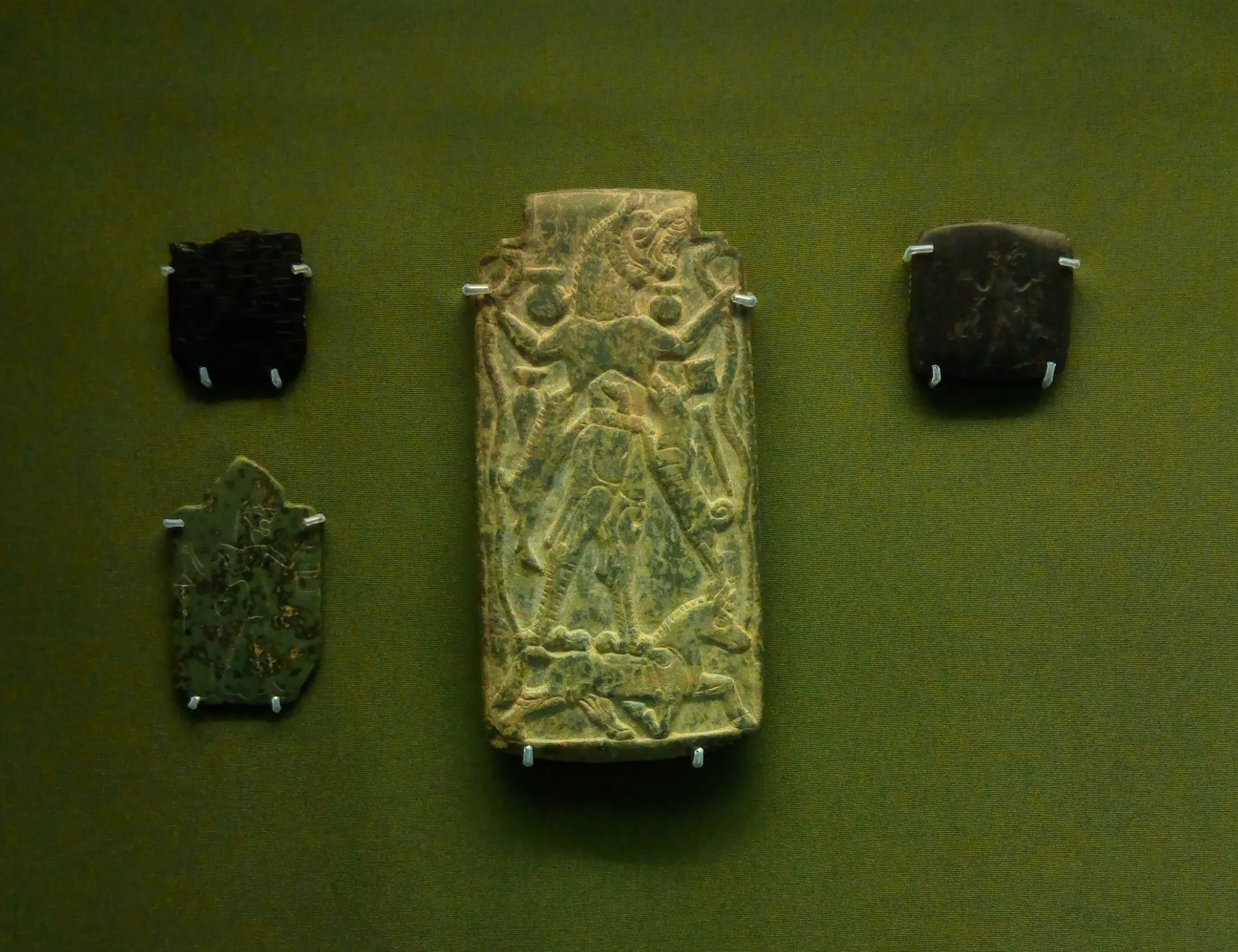 Amulets hung up in the bedroom to repel the demoness Lamashtu, who prayed on women in childbirth and new-born infants. Iraq, c. 800-550 BC. Top left: obsidian amulet inscribed with a spell. ME 127371. Left, second row: amulet inscribed with a spell listing the names of Lamashtu, giving the owner power over her. ME 128857. Center: amulet showing Lamashtu standing on a donkey and suckling a wild pig and a jackal. ME 117759. Top right: obsidian amulet showing a two-headed Lamashtu with outstreched claws and two dogs. ME 132520.